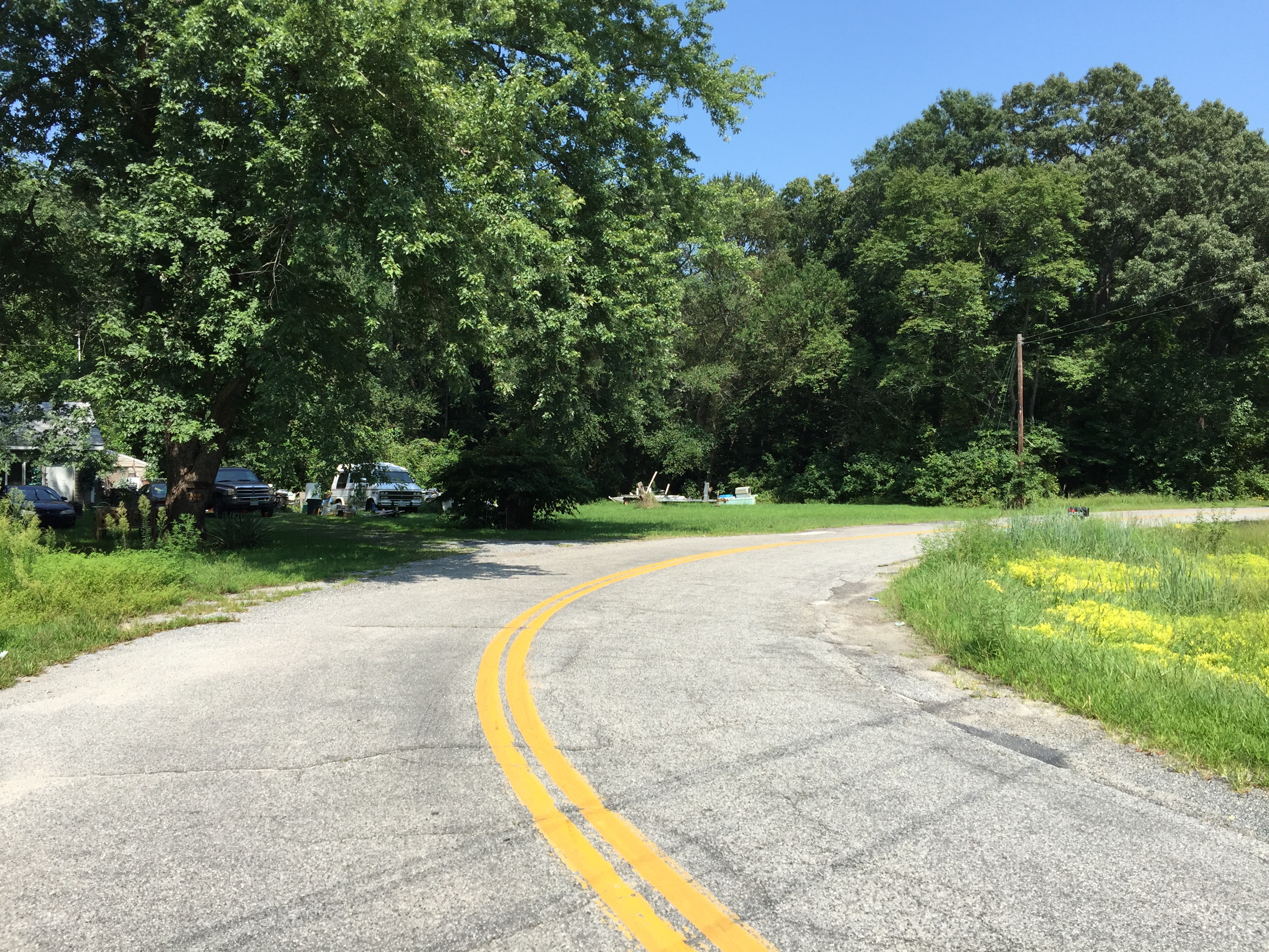 View east along Maryland State Route 820 (Castle Hall Road) at Maryland State Route 313 (Goldsboro Road) in northern Caroline County, Maryland